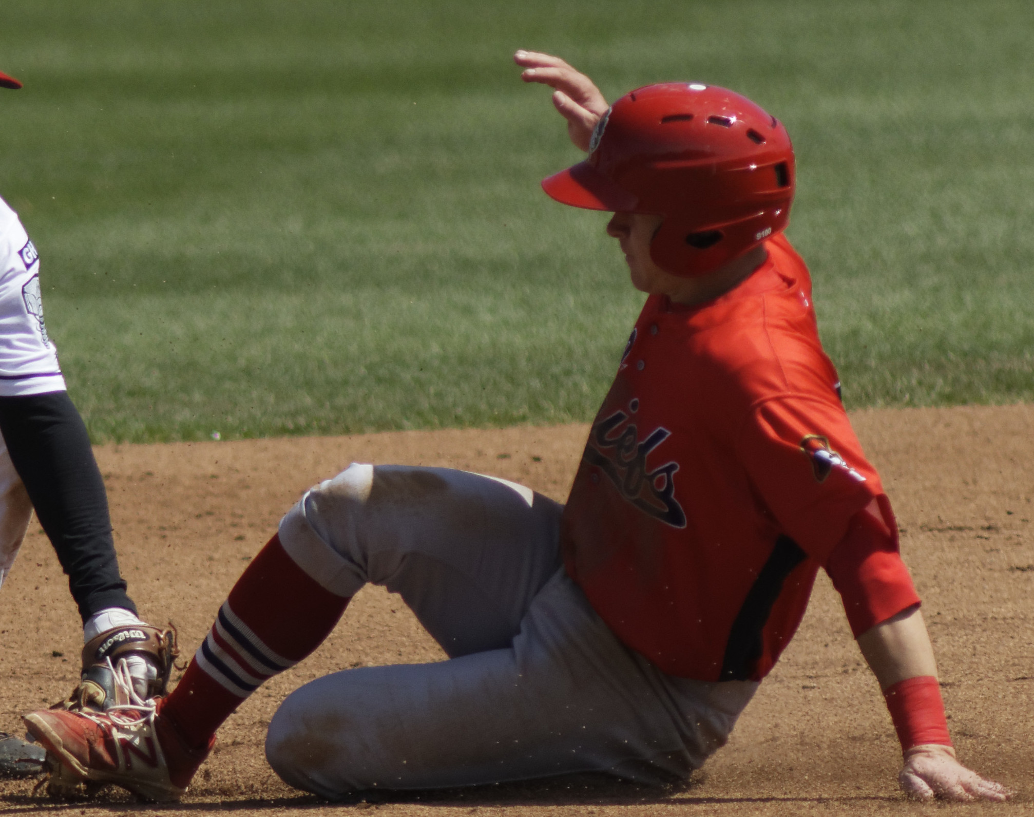 Andy Young of the Peoria Chiefs is tagged out by Yeltsin Gudino of the Lansing Lugnuts during a 2017 game at Cooley Law School Stadium in Lansing, Michigan